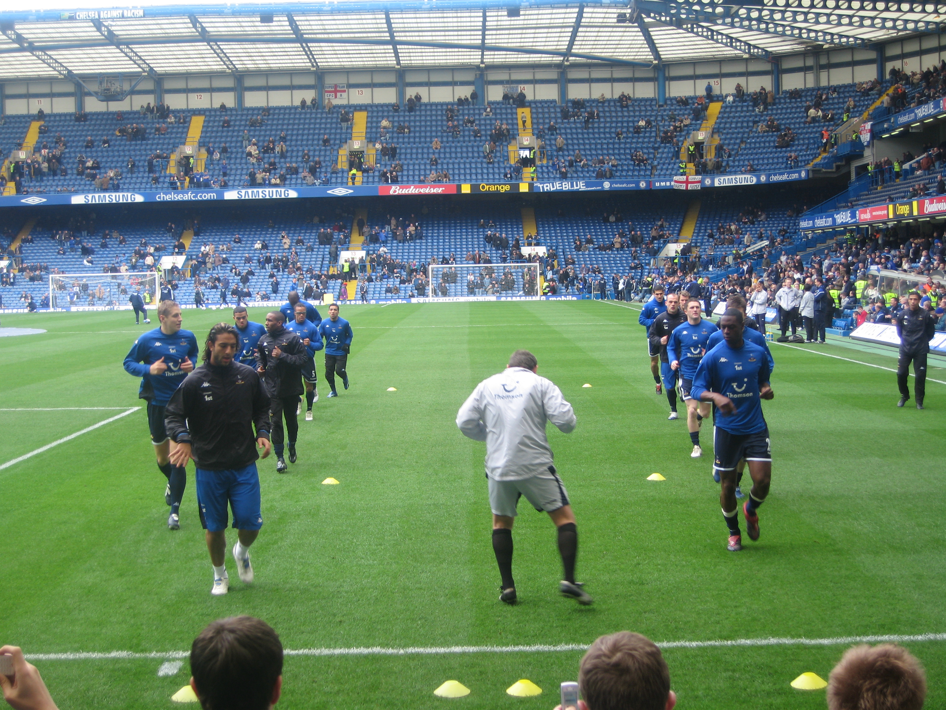 Tottenham warming up